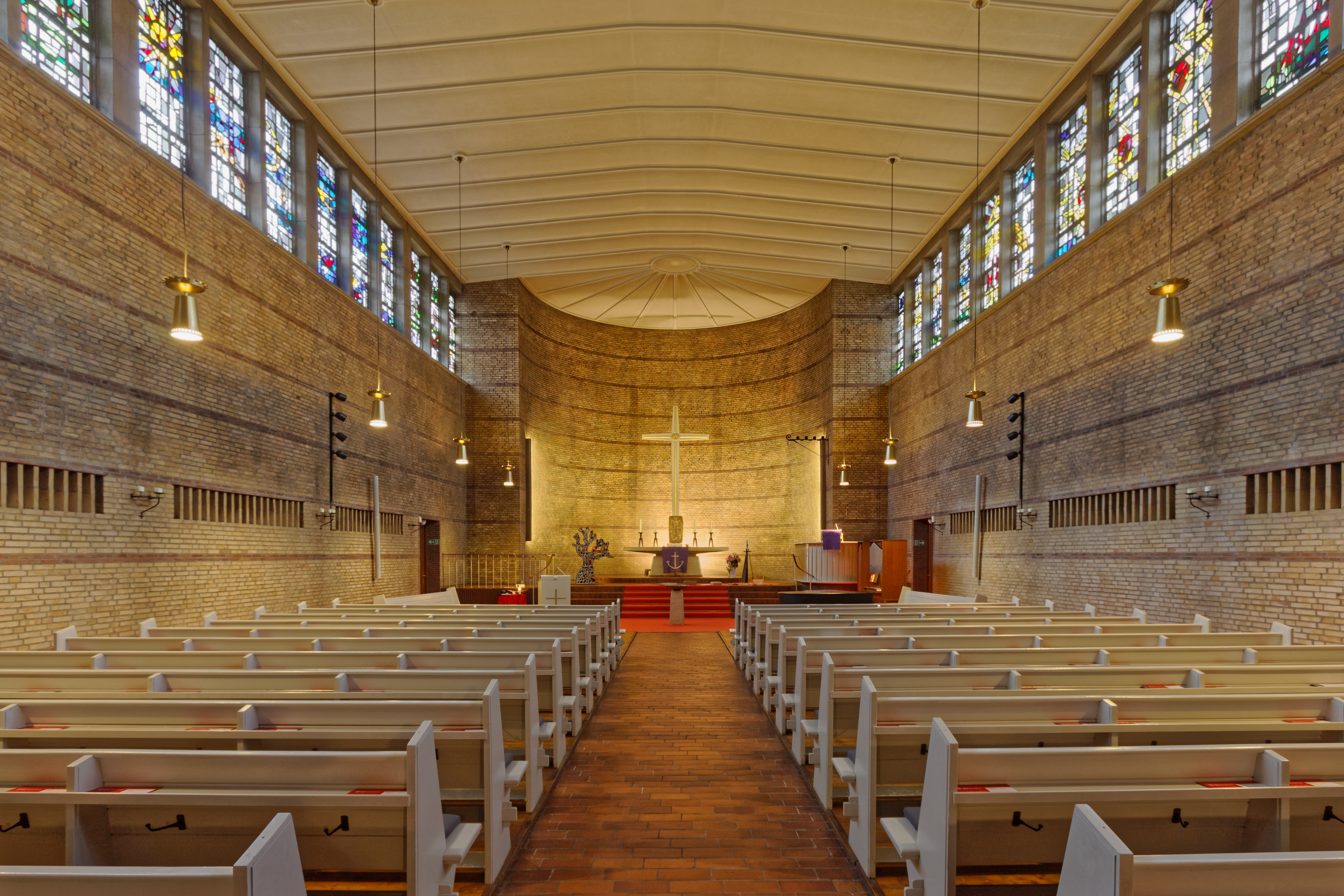 Paul-Gerhardt-church, Hamburg-Bahrenfeld, interior